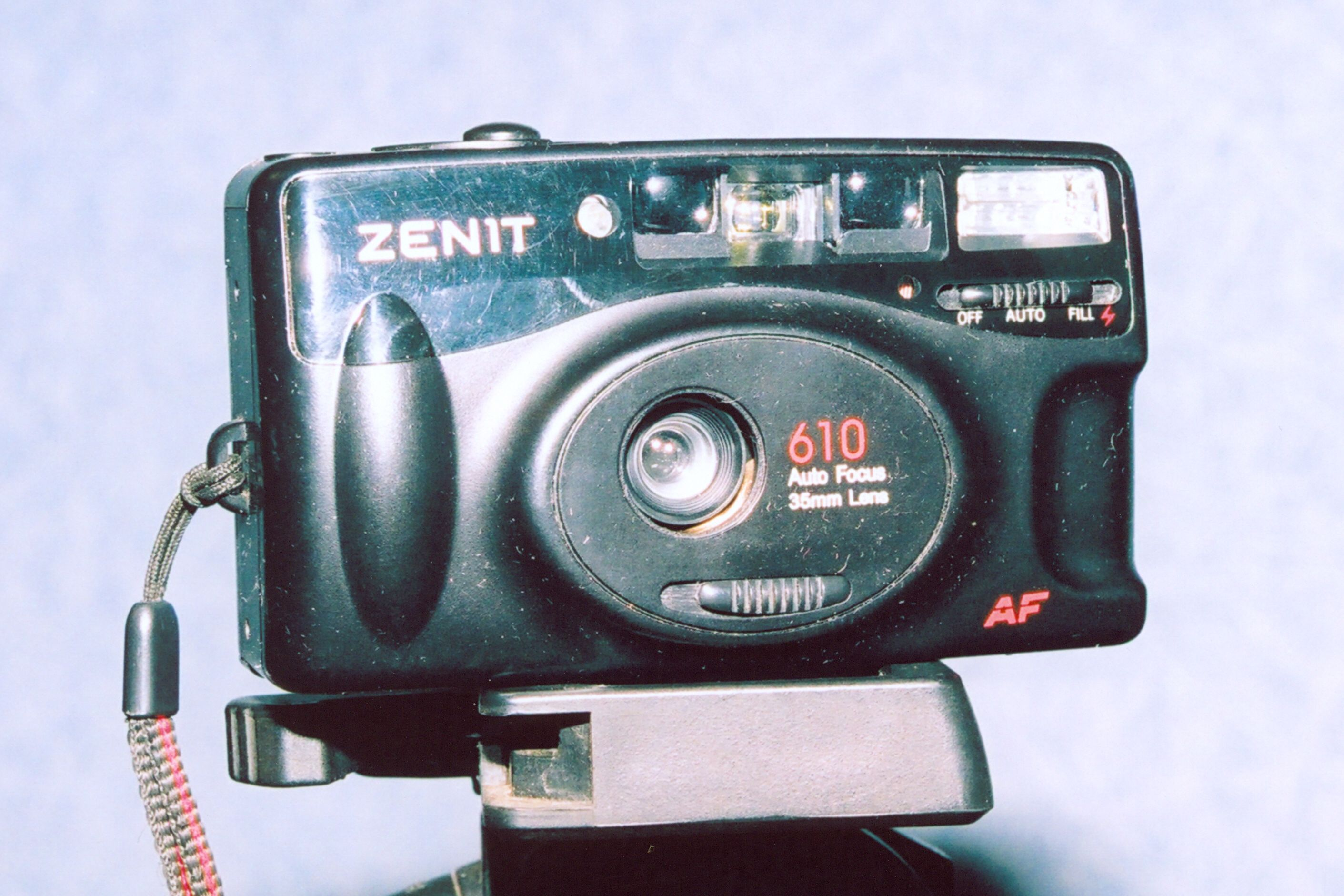 Zenit 610